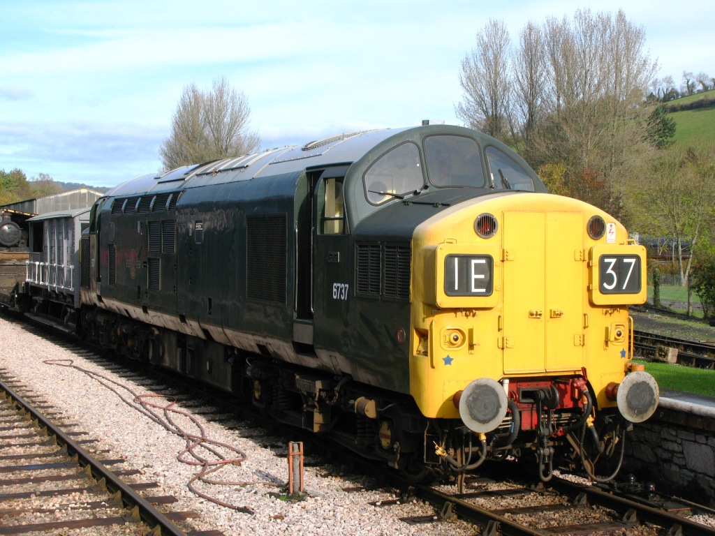 Class 37 D6737 shunting wagons at Buckfastleigh, getting them ready for some engineering work that was scheduled for the next day.